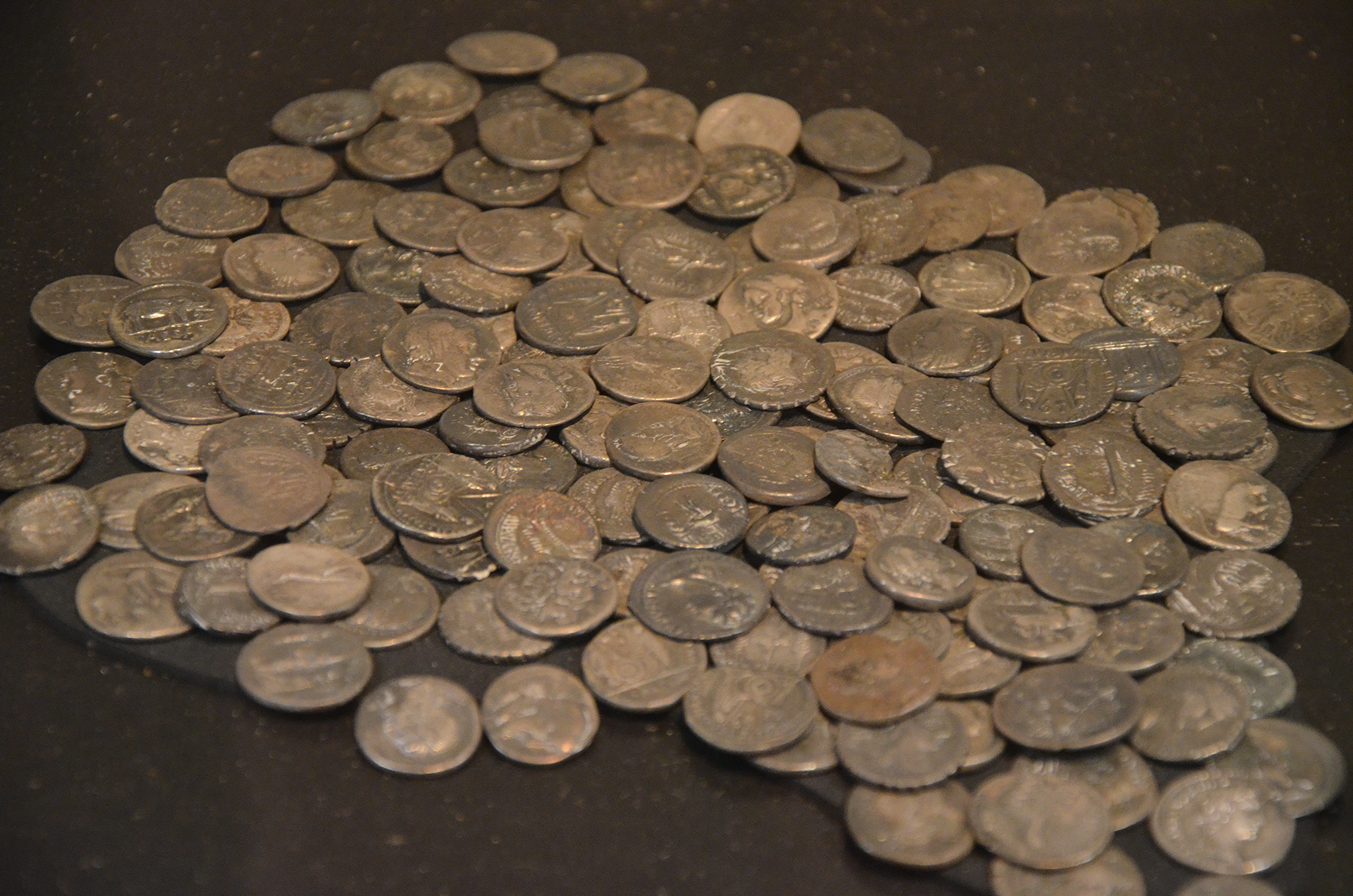 Cache of silver dinarii discovered in 1987 on the site of the Battle of Teutoburg Forest, Museum und Park Kalkriese, Germany